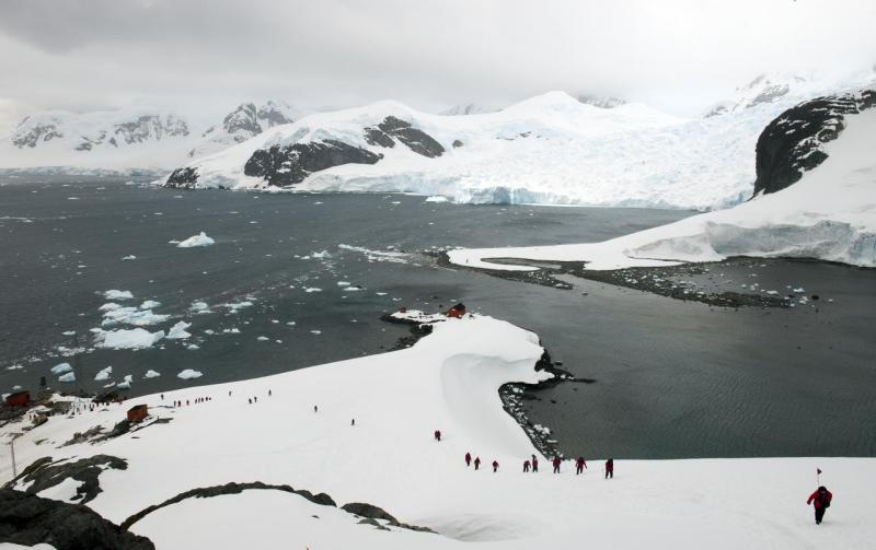 Paradise Bay in Antarctica, with the Argentinian base Almirante Brown Station.